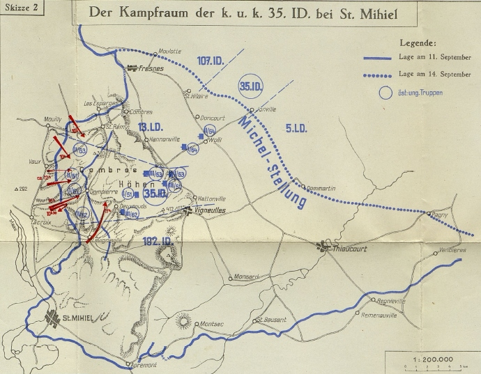 The operational area of the k.u.k. 35th Infantry Division at St. Mihiel (France ) on 11 and 14 September 1918.